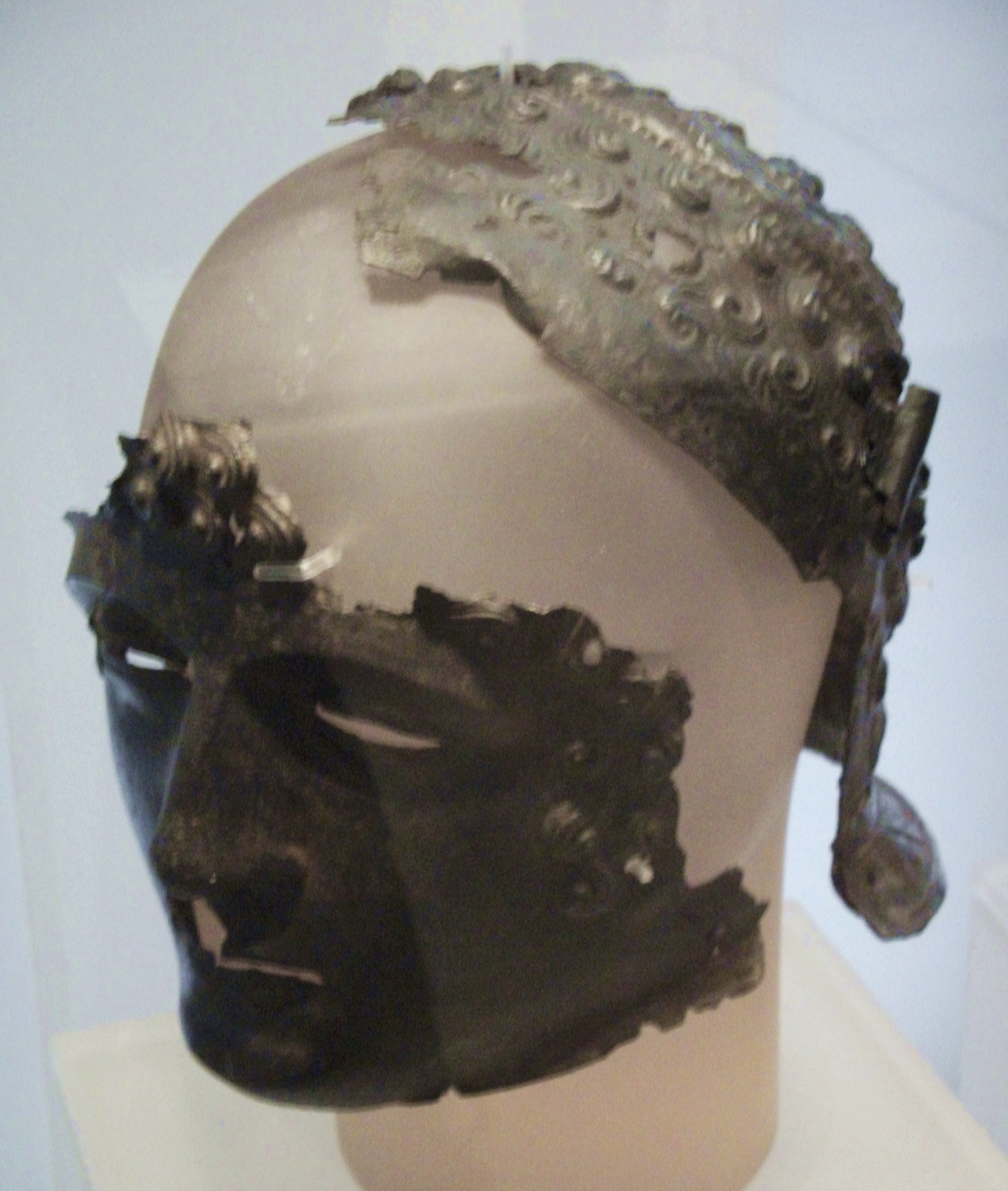 This parade helmet and face mask, made of beaten iron, was found by James Curle at the site of the Roman fort of Trimontium in the parish of Melrose, Newstead, in Roxburghshire. It was used in parades and tournaments by auxiliary cavalrymen between 80 and 100 AD. National Museum of Scotland.